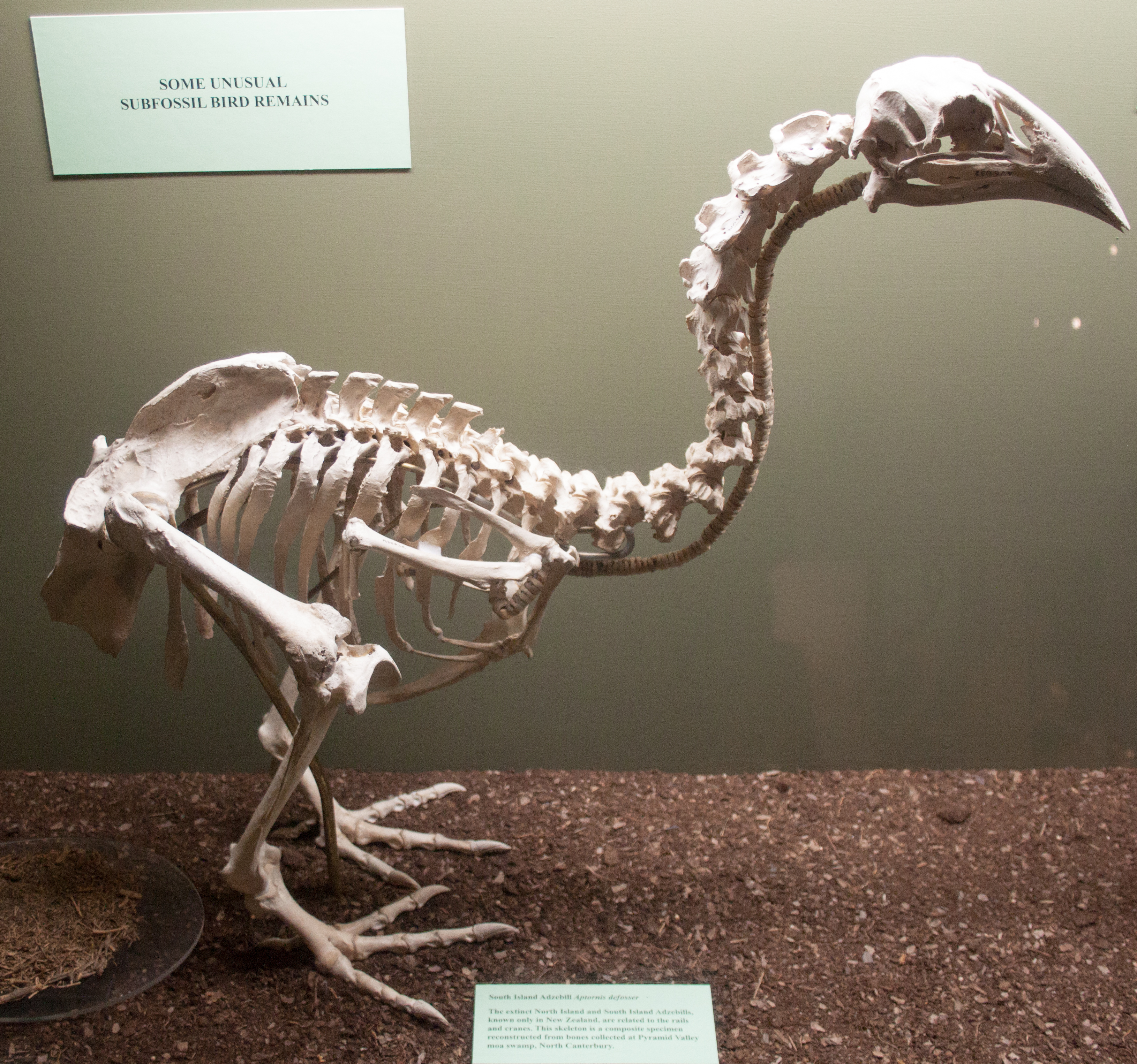 South Island Adzebill